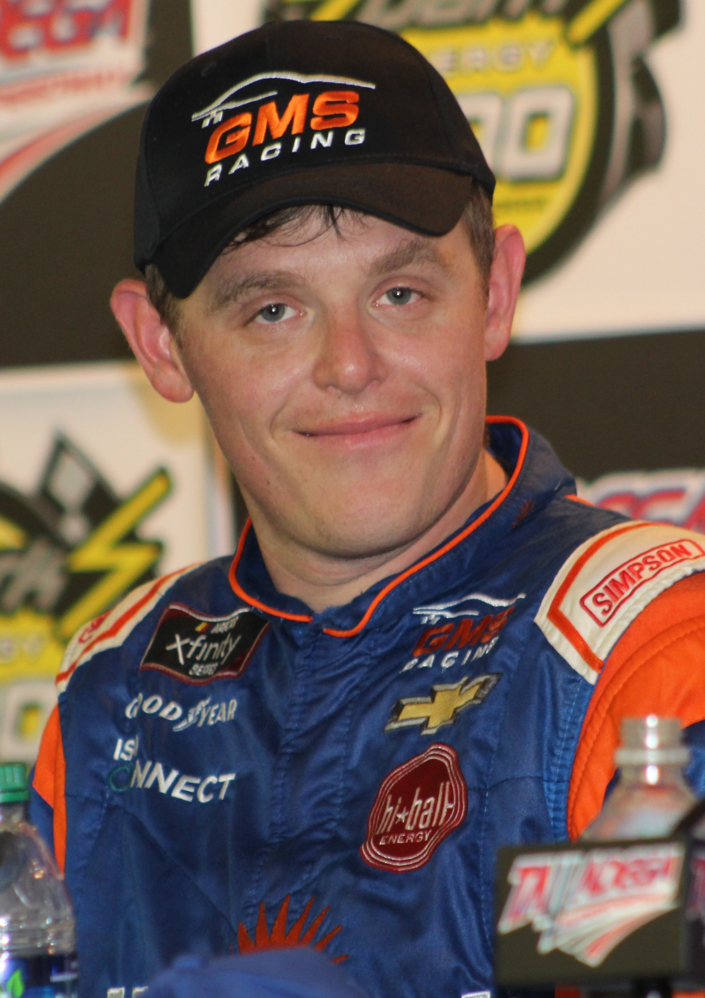 Spencer Gallagher after winning the 2018 Sparks Energy 300 at Talladega Superspeedway.